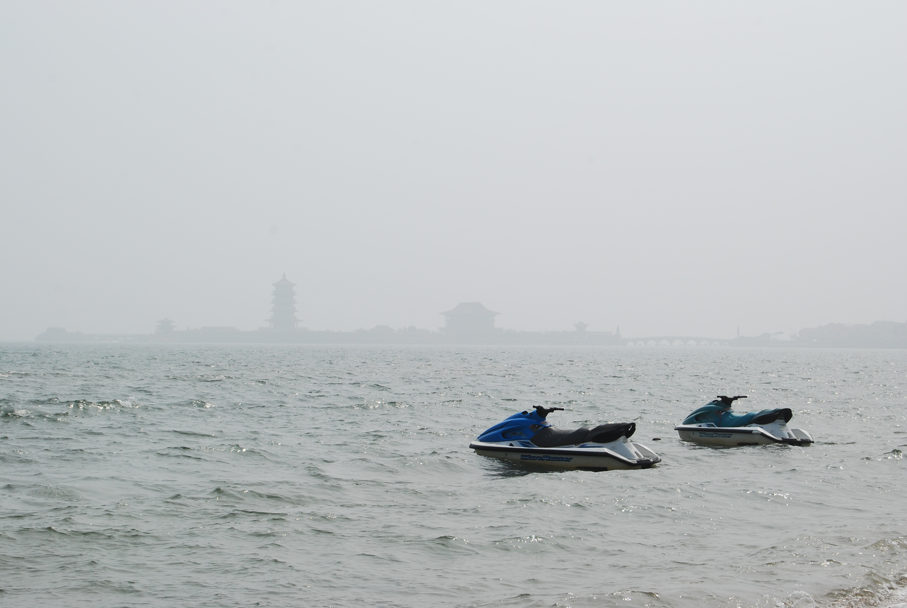 Mirage on the sea near Penglai,Shandong.